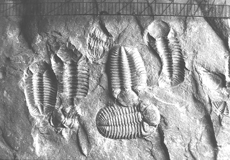 a group of trilobites, probably Phacops rana. From the US Department of the Interior at